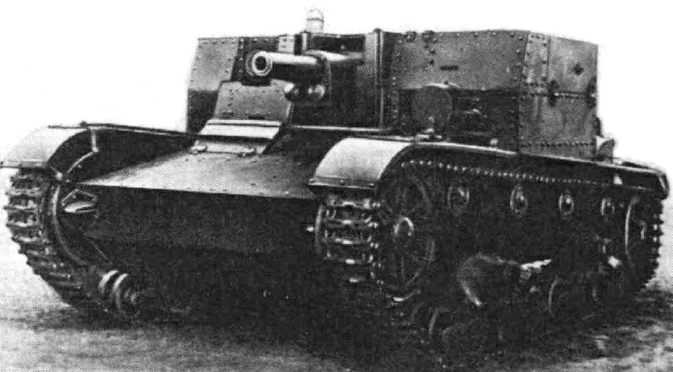 Artillery tank AT-1 (based on T-26 light tank chassis)